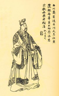 a protrait of Liu Shan the Second and Last Emperor of Shu Han of the Three Kingdoms